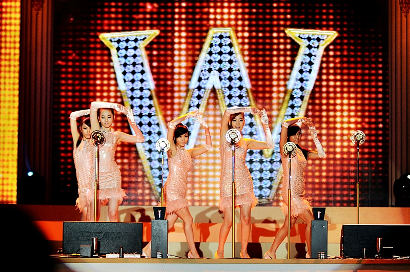 The Wonder Girls performing "Nobody" at the 2008 Bucheon World Intangible Cultural Heritage Expo opening ceremony.